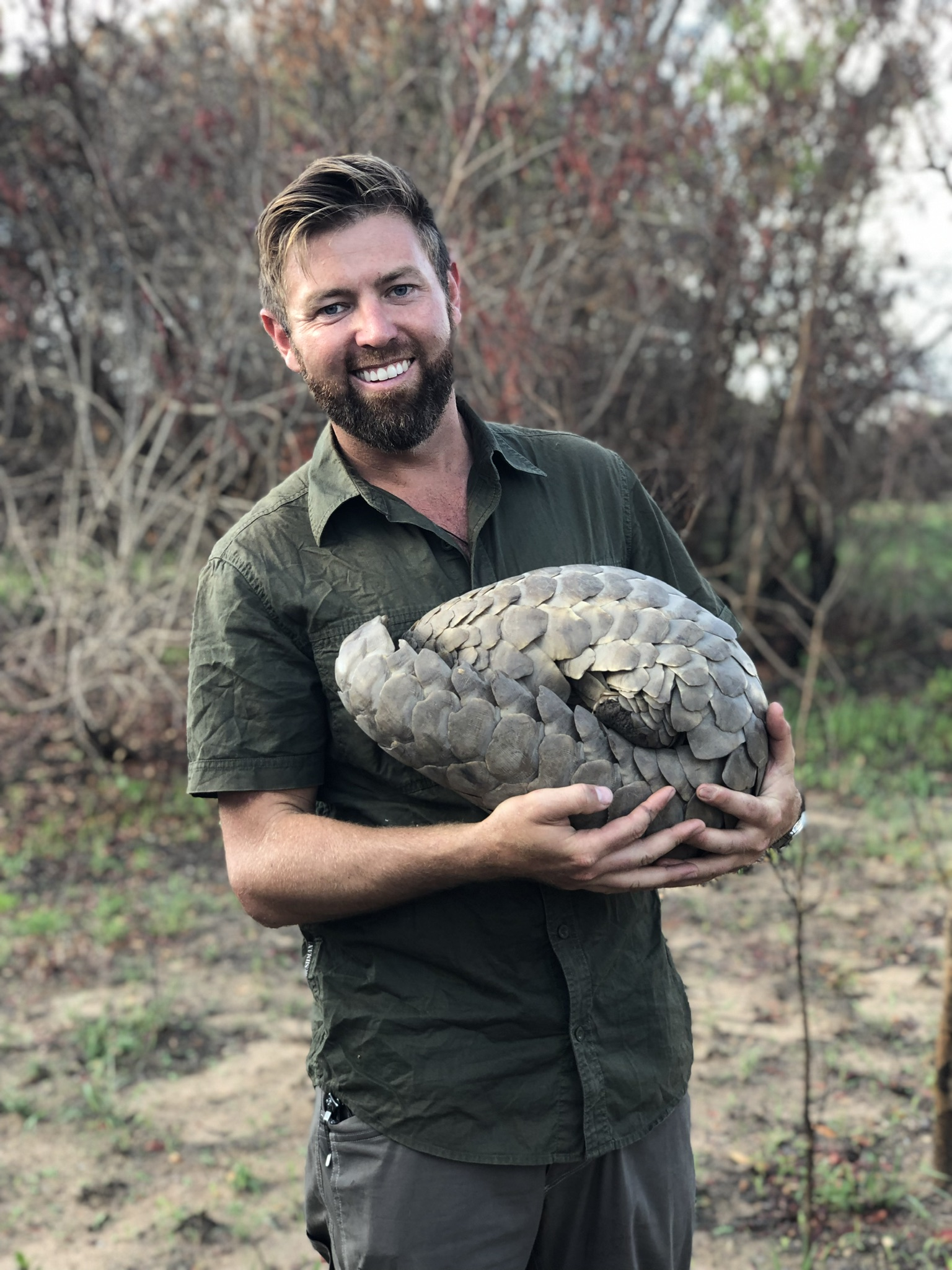 Wildlife Biologist Forrest Galante with a Pangolin.